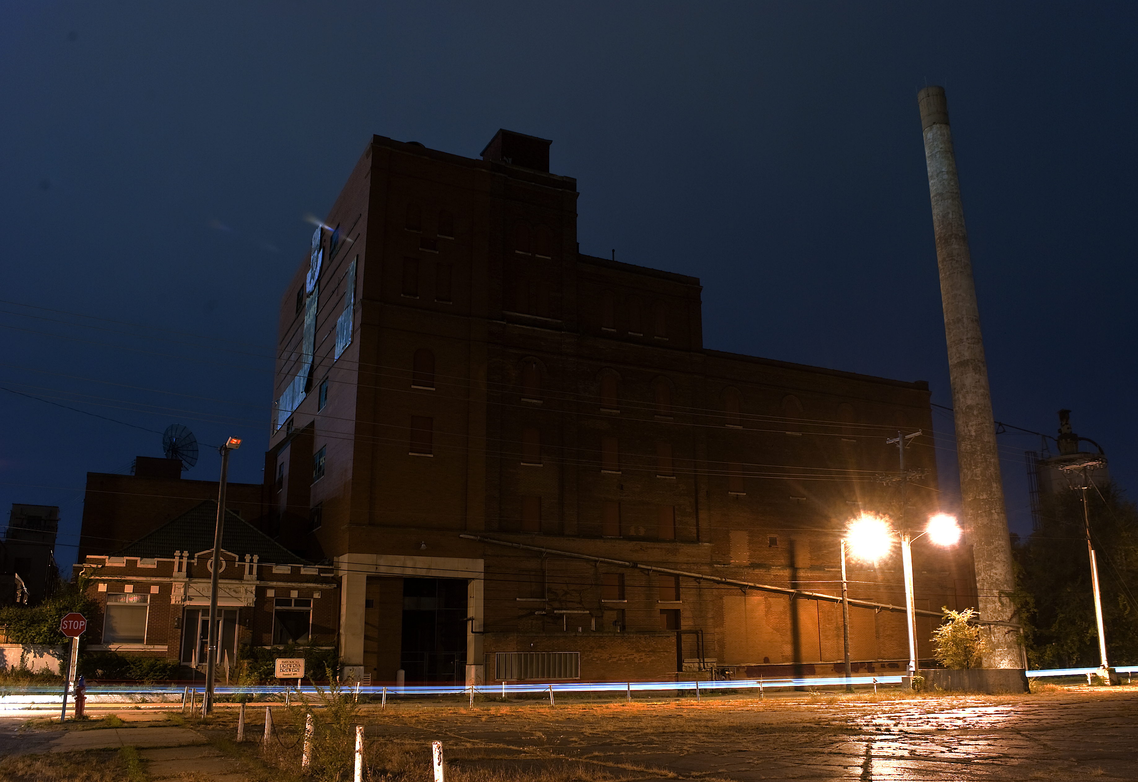 A night time shot of the old Drewry's Brewery in South Bend Indiana